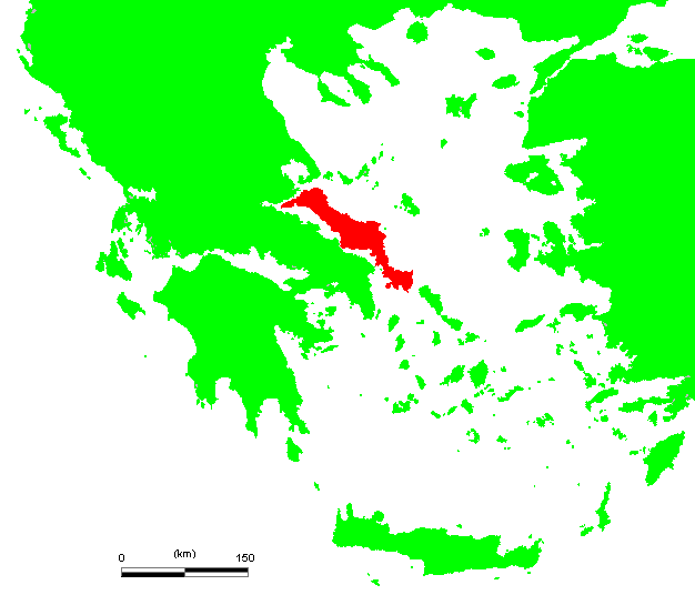 Location map of Evia in Greece